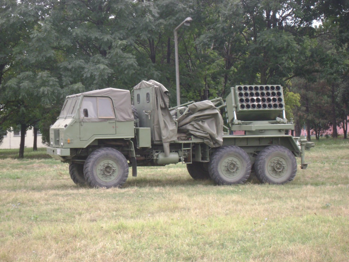 Serbian Army 128mm MLRS Plamen-S.